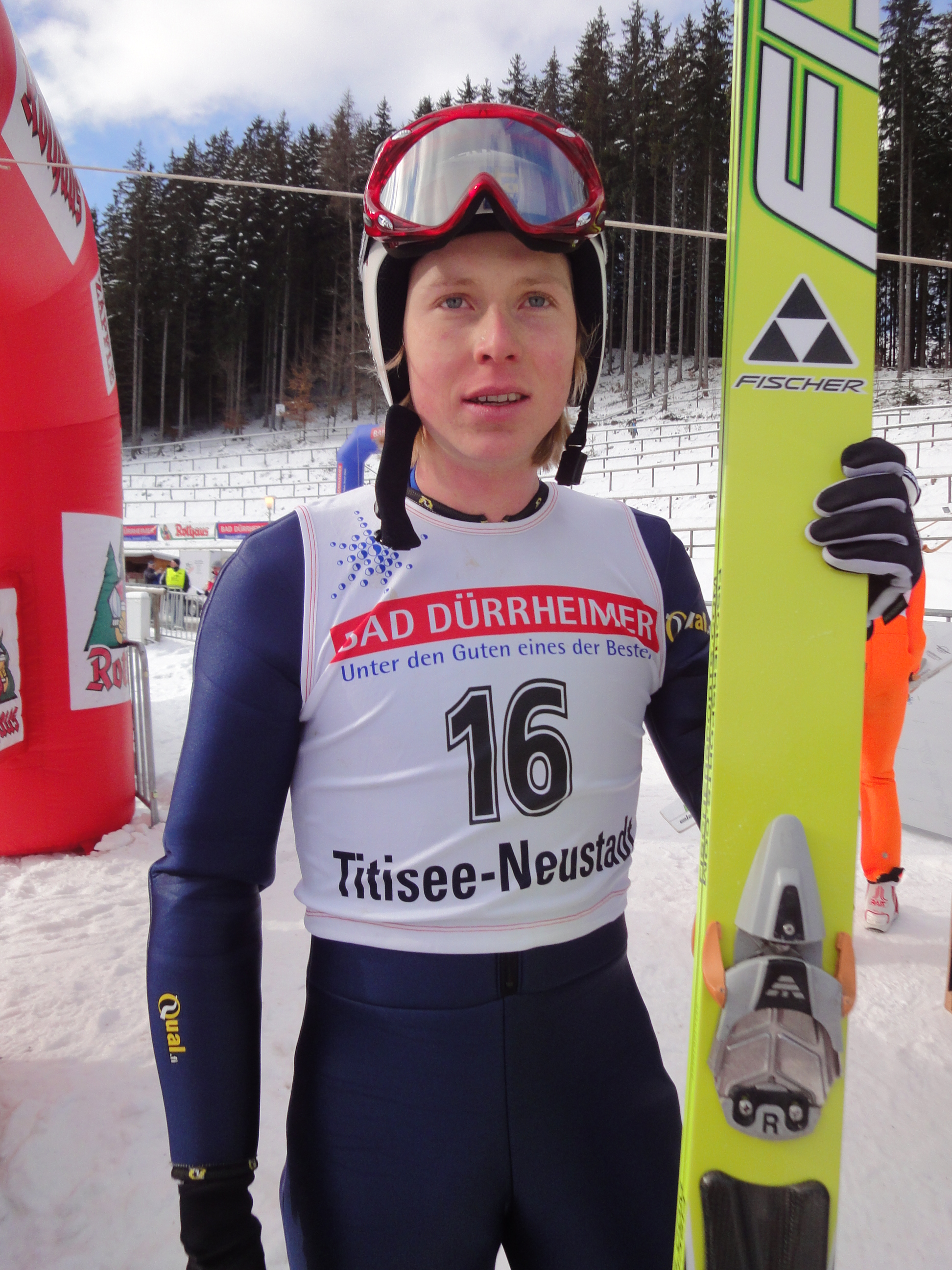 Fredrik Balkåsen: the photo was taken during Saturday's competition of 2011's Continental Cup event at the Hochfirstschanze in Titisee-Neustadt